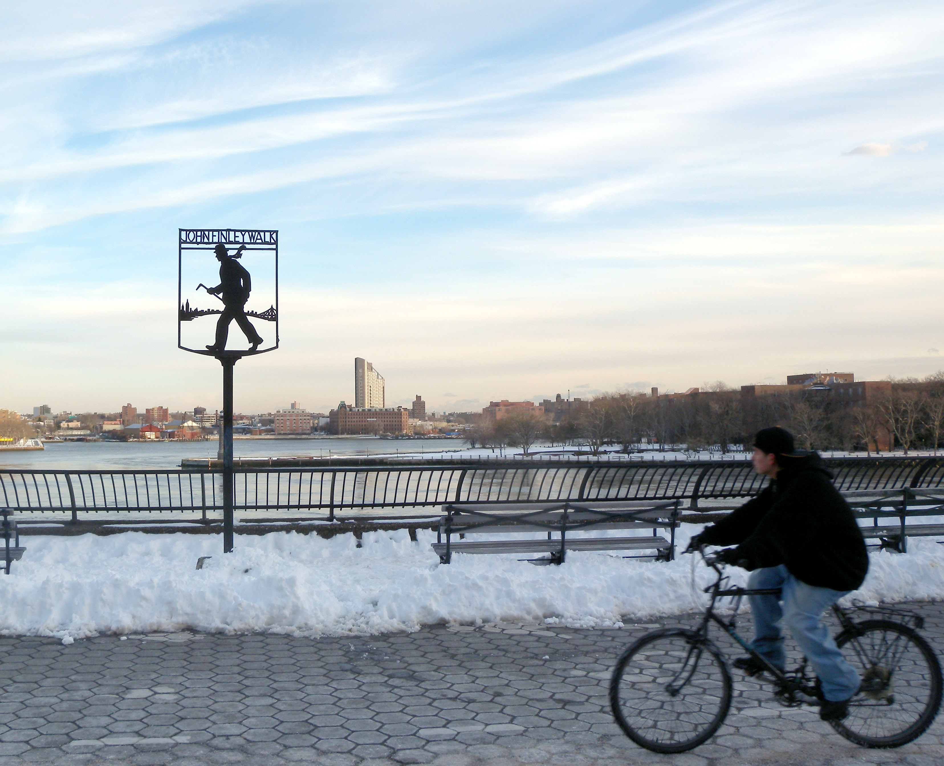 Looking southeast at Finley Walk on a cloudy afternoon in northern Carl Schurz Park.